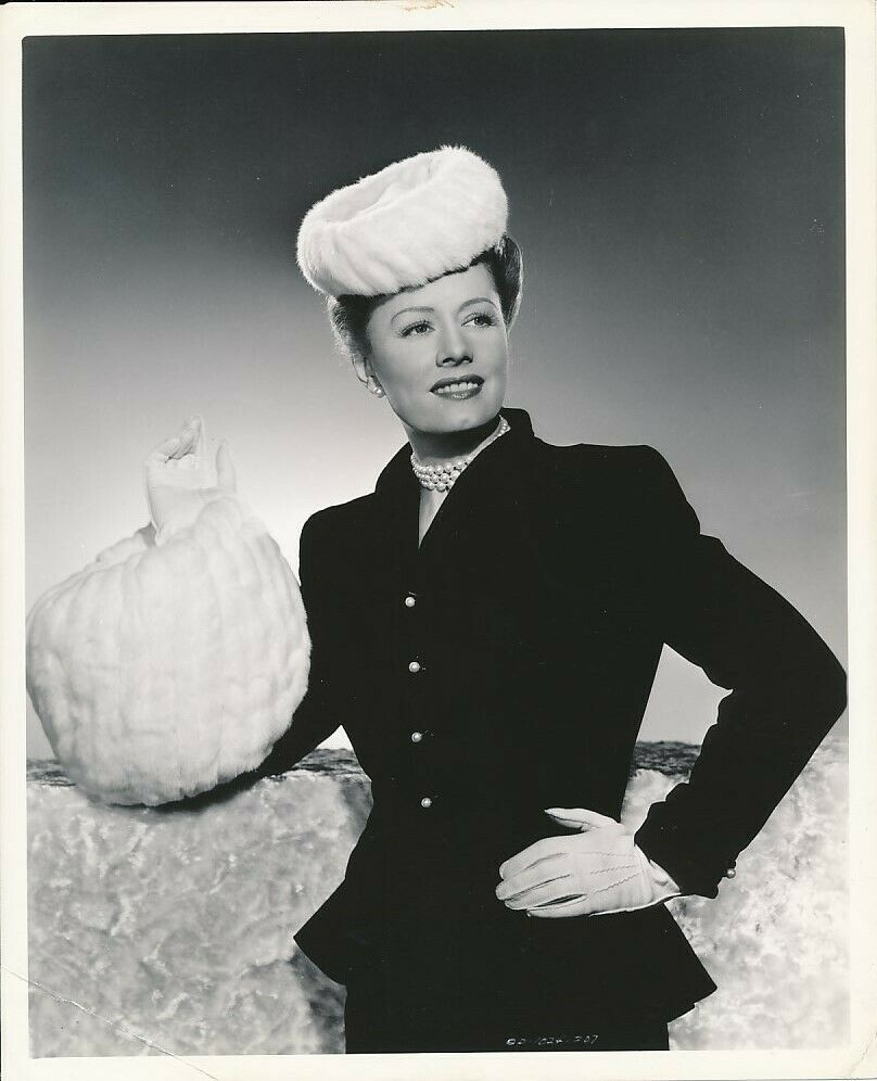 Irene Dunne wears a pretty winter wardrobe in Together Again, 1947